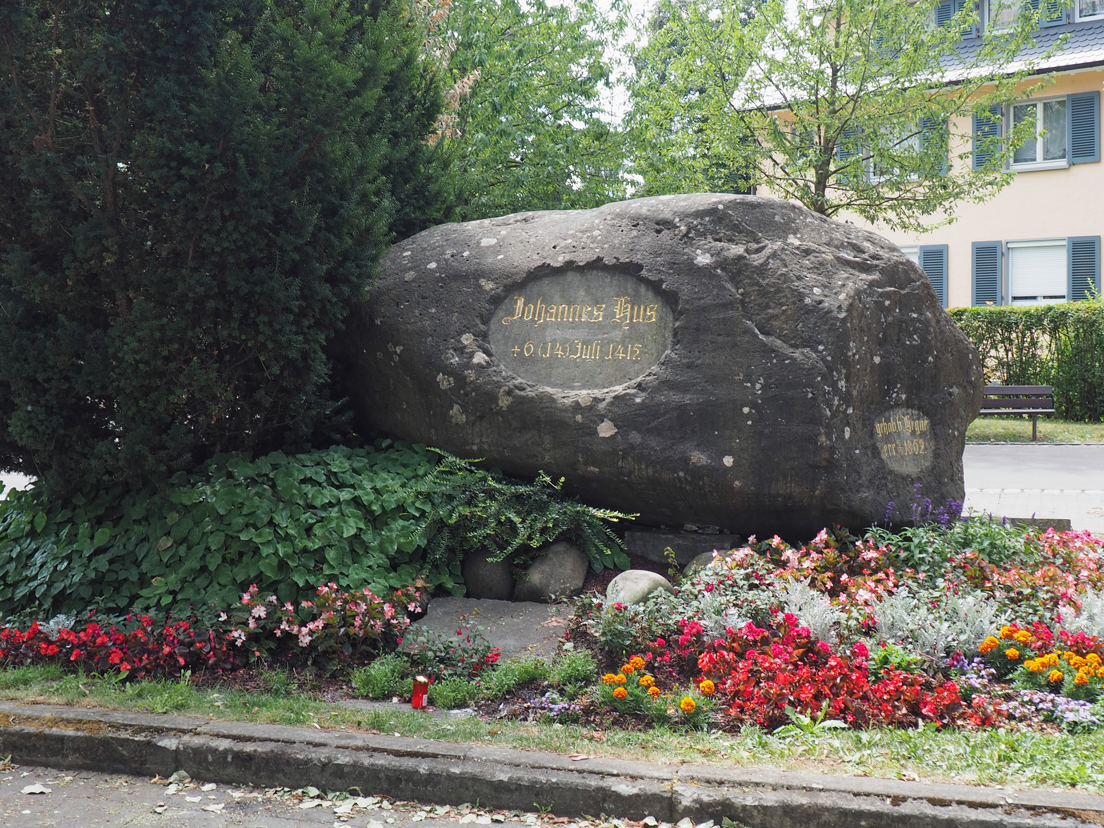 Hussenstein in Konstanz, plaque for Jan Hus. This erratic block with 35.000 kg weight marks the place where the Bohemian reformer Jan Hus (6 July 1415) and his a friend and fellow Jerome of Prague (30 May 1416) have been burned as heretic during the Council of Constance. The memorial stone from blackish limestone was funded by donations. It was inaugurated on October 6, 1862. Regularly on July 6, the Hussenstein is venue for the annual commemoration of Jan Hus and Jerome of Prague.